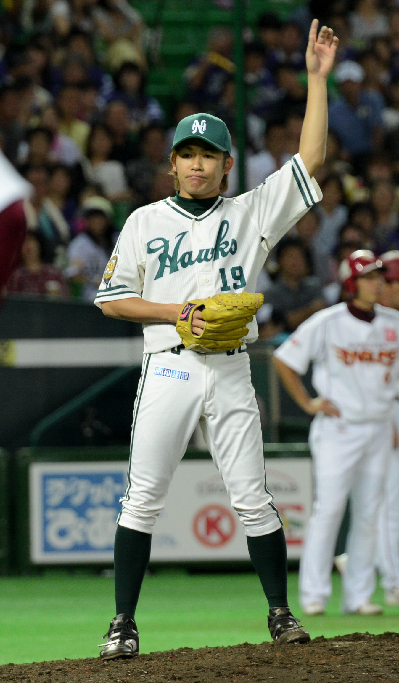 Masahiko Morifuku, pitcher of the Fukuoka SoftBank Hawks, at Fukuoka Dome.